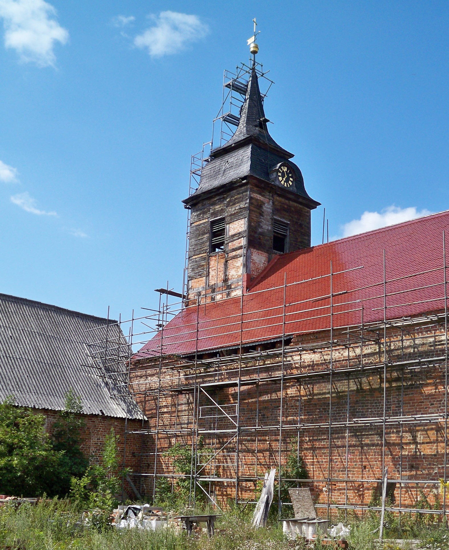 Kloster Dambeck, Saxony-Anhalt, church of former monastery, with new roof